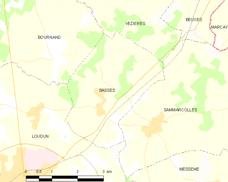 Map of French municipality Basses